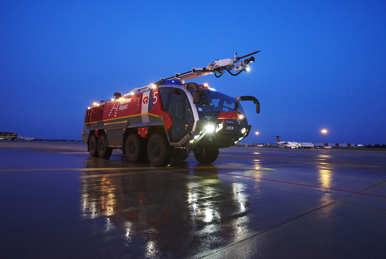 Fire engine